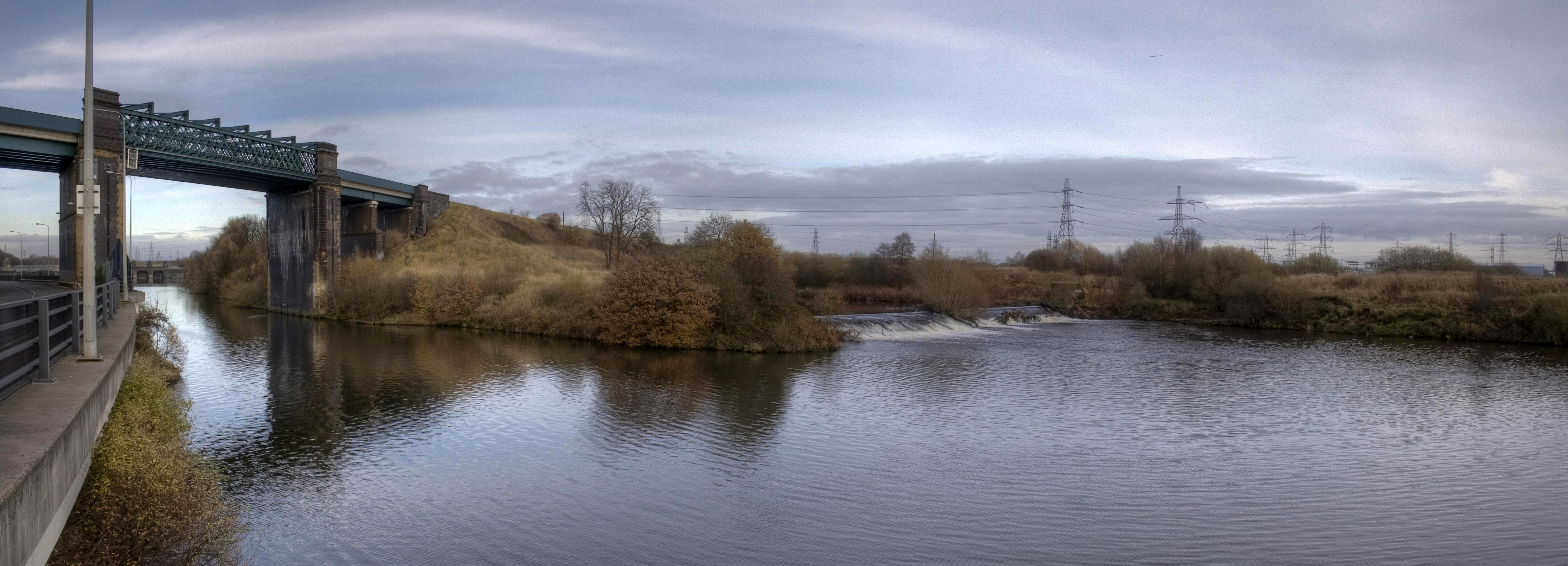 A HDR Panoramic image (3 scenes) of the confluence of the Mersey and Ship Canal. To the left of the image is Irlam Railway Viaduct, which carries the Liverpool-Warrington-Manchester line across the canal. Irlam Locks can be seen in the distance, behind the viaduct. The power lines head to the former site of Carrington Power Station.